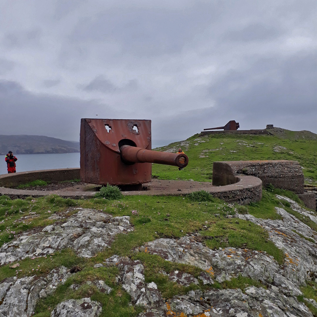 Naval guns placed on an island hill top during the First World War